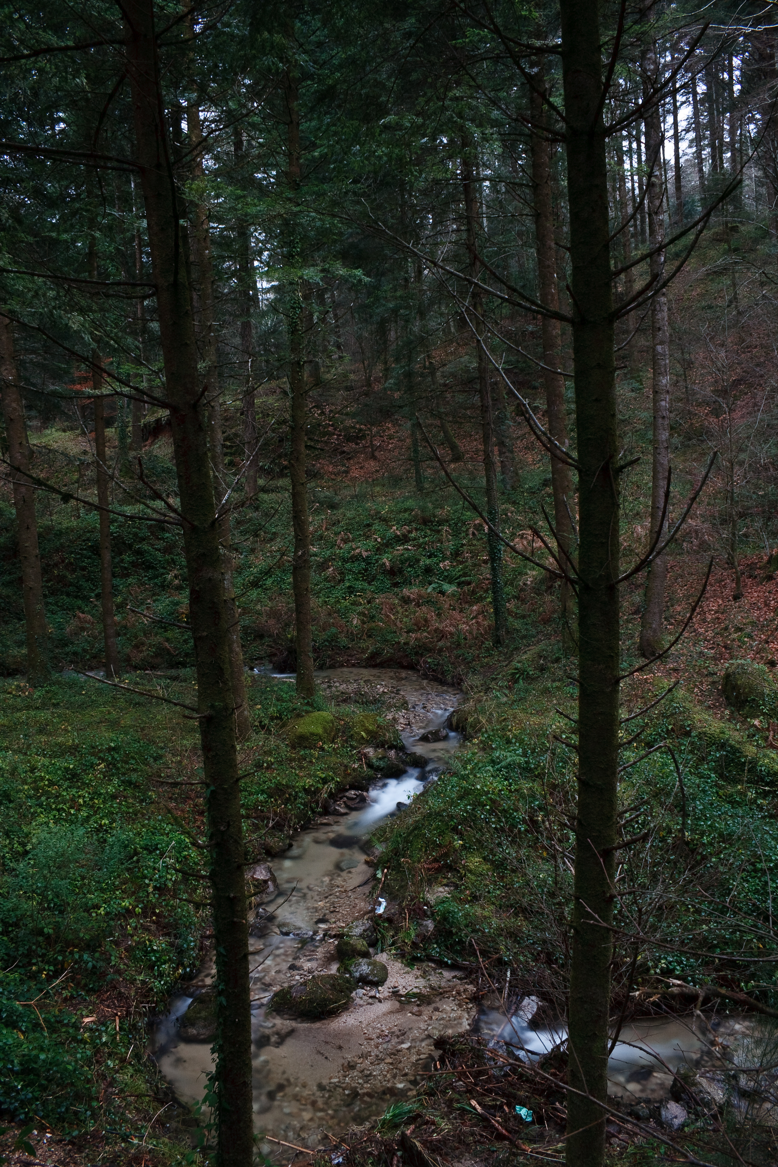 Beginning of Ancinale River in Santa Maria woods at Serra San Bruno, VV, Italy.